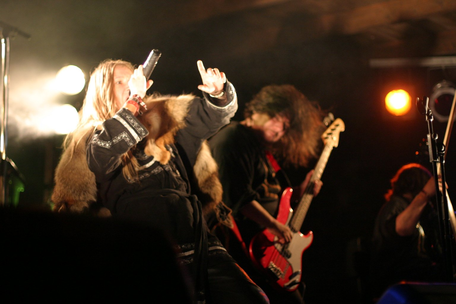 Maria („Mascha“) ‚Scream‘ Archipowa (vocalist) and Ruslan "Knjas" (bassist) of the russian Pagan-Metal-Band Arkona, performing live at the Black Troll Festival (Germany) in 2010.